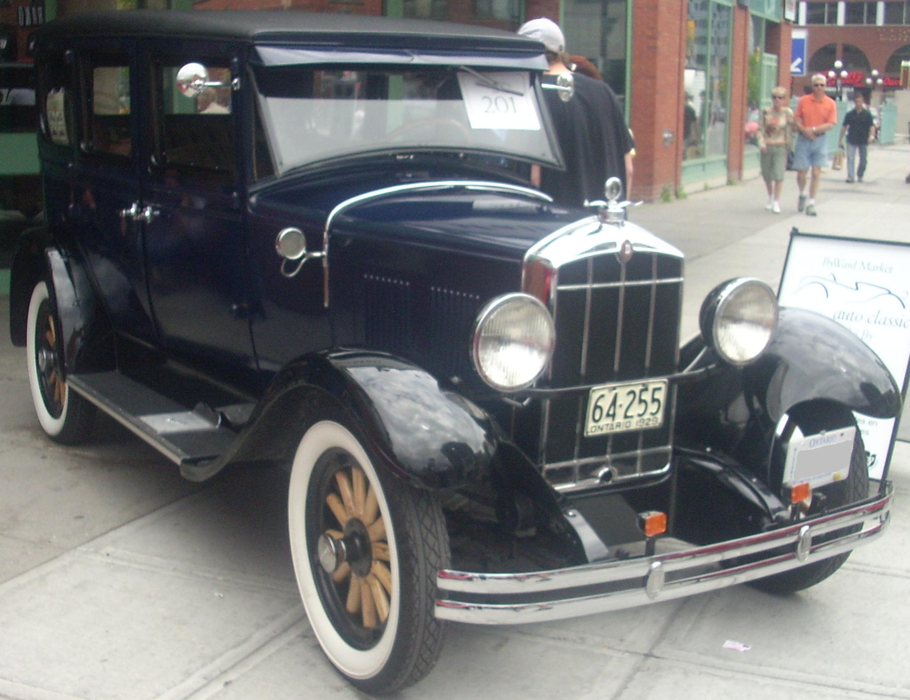 1929 Durant photographed in Ottawa, Ontario, Canada at the Byward Market Auto Classic 2009.